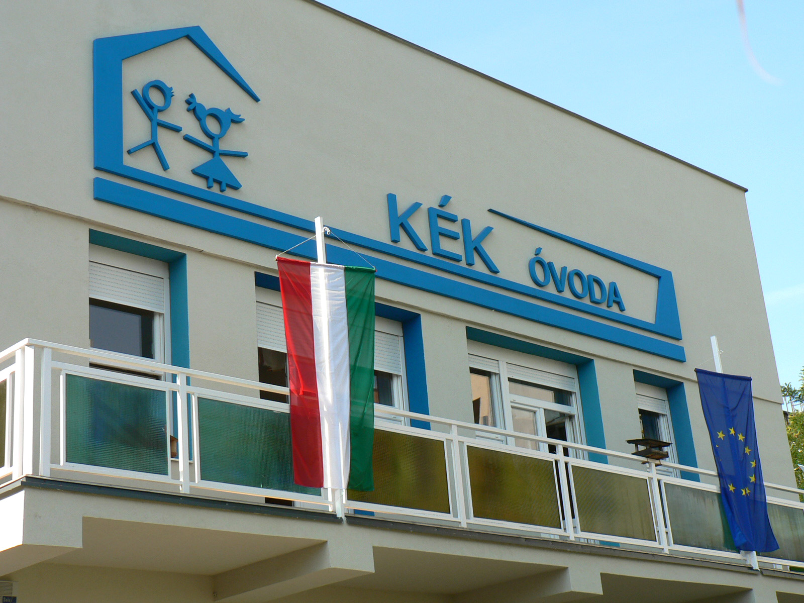 A Kék Ovi a 2011-es felújítása után